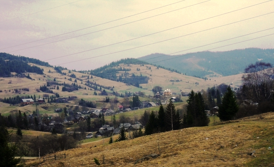 Plav'ya - a village in Ukraine. Skole Raion in Lviv Oblast. Panorama of the village.